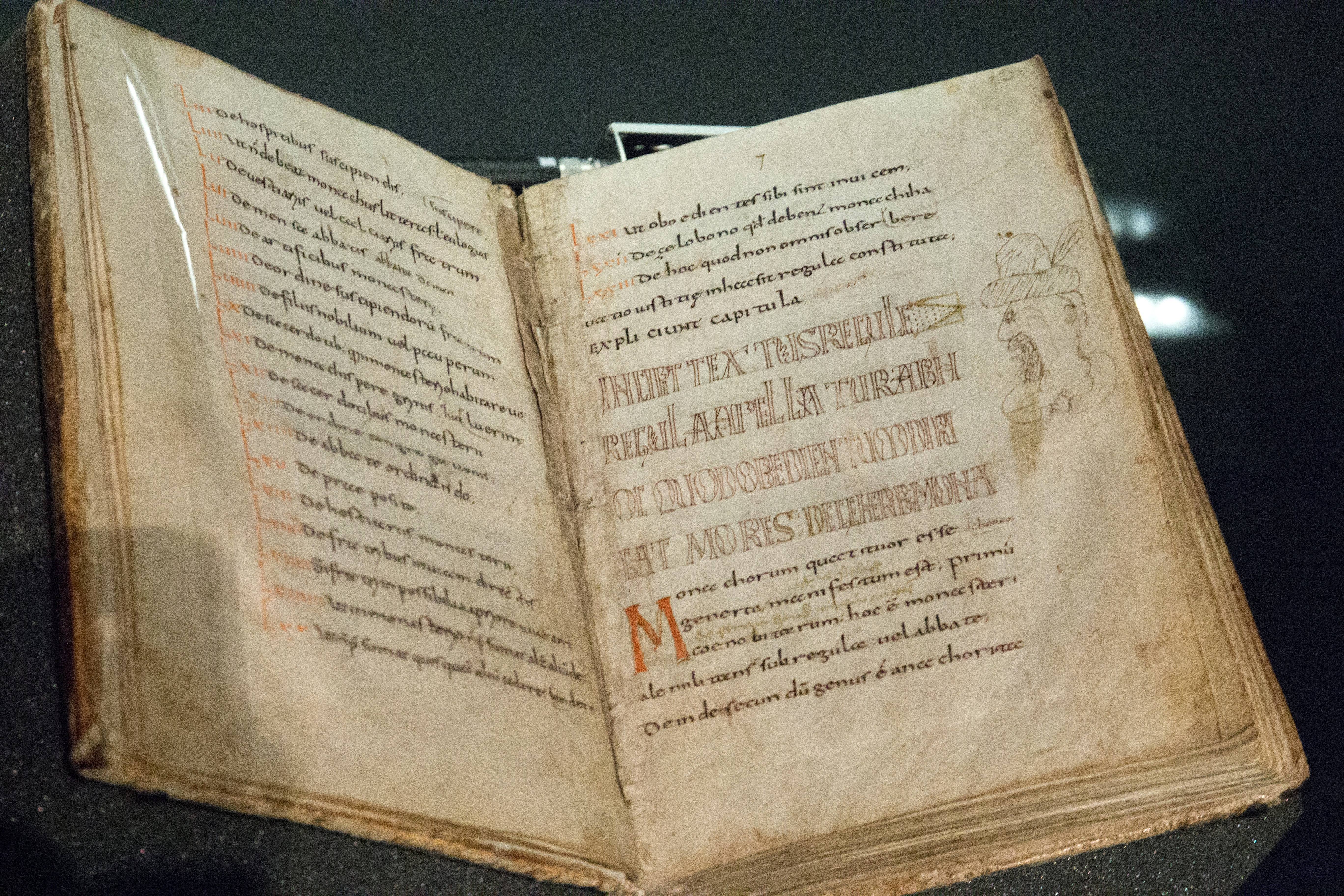 Codex Sangallensis, Regula S. Benedicti. Reichenau, 800-833. Marginalia: 16th century. Stiftsbibliothek St. Gallen, Cod. 914th